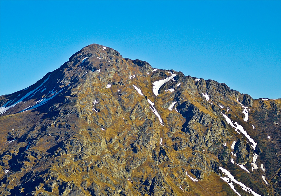 Kupena peak, Central Balkan mountains